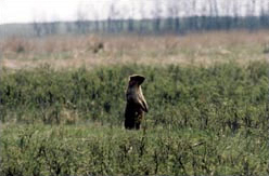 Steppe marmot in the Lugansk Nature Reserve